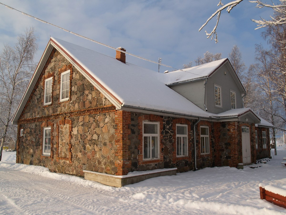 Tõhela village